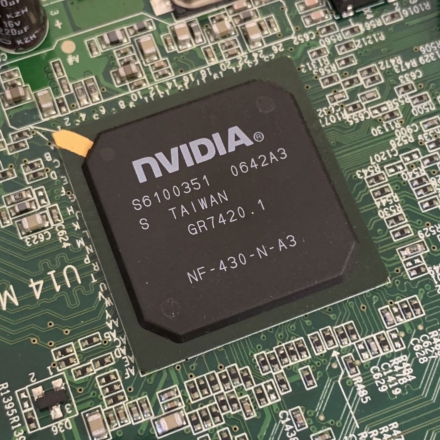 GPU NVIDIA NF-430-N-A3